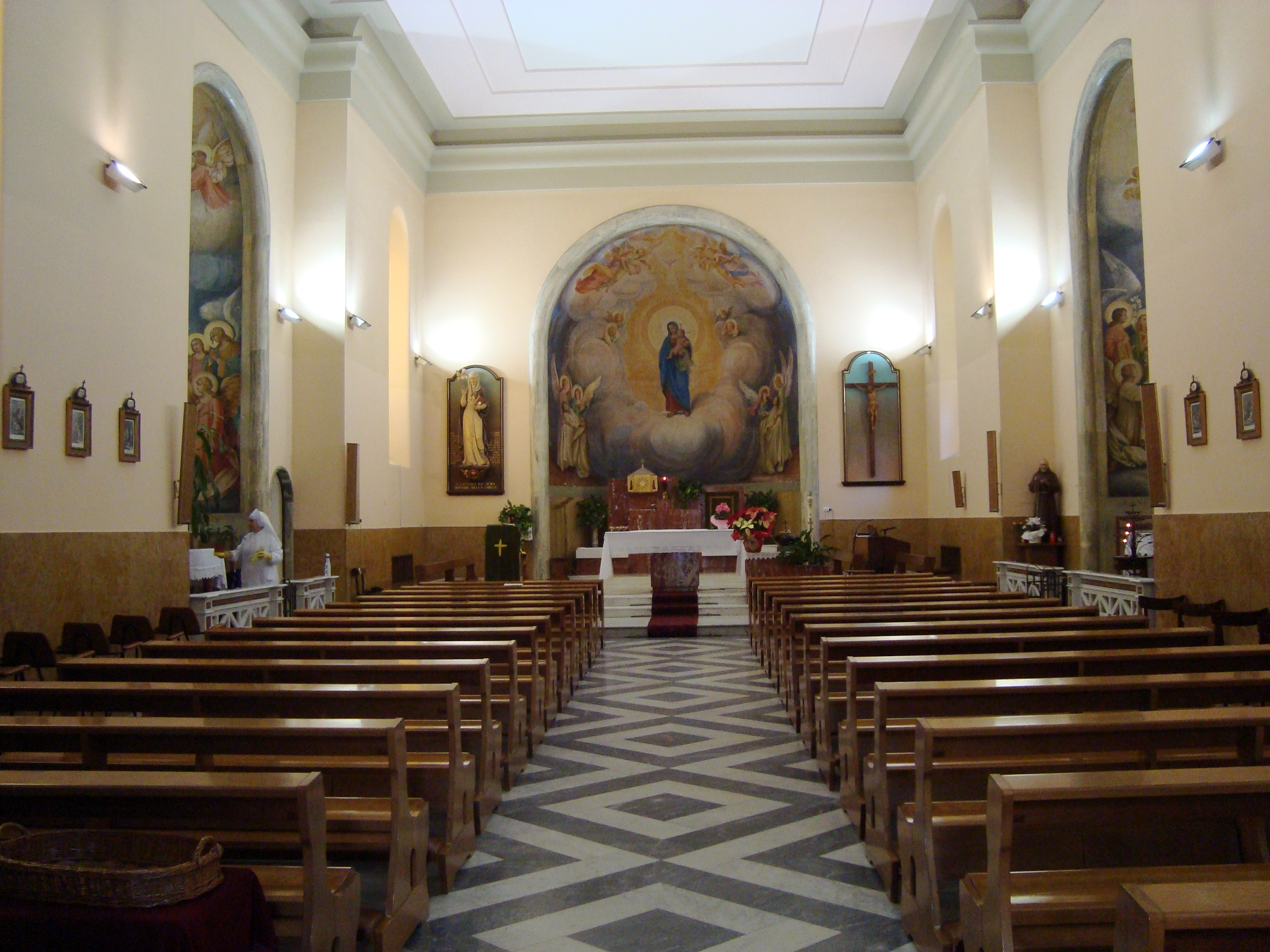 The interior of the Church Santa Catarina da Siena in Rome